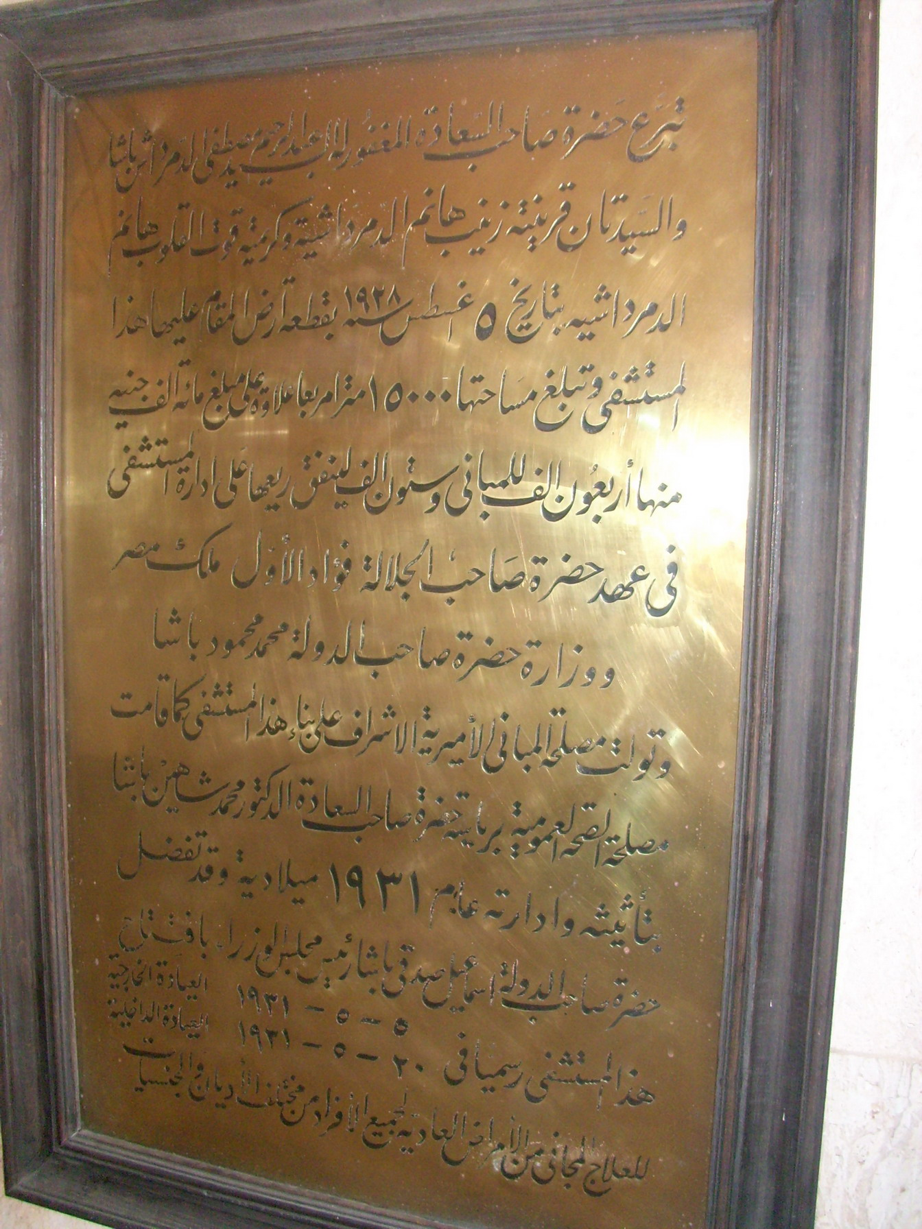 The Memorial metalic plate erected in the Original El-Demerdash hospital, mentioning the establishment date of the hospital 1929 and the Official opening on 1931, and that it aimed of treatment of all people from all religions and all nationalities.